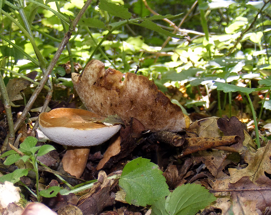 Edible and very tasty mushroom belonging to Boletaceae family. Micorhyzal with oaks, Mushrooms and other fungi from Maramures County (Romania)